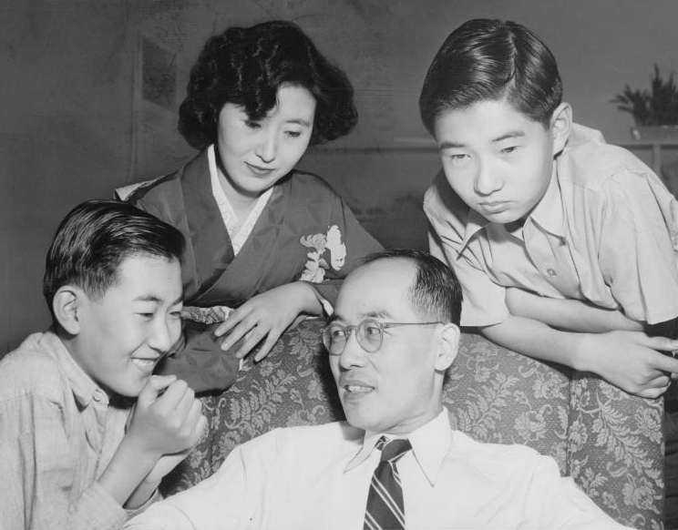 Hideki Yukawa together with his family